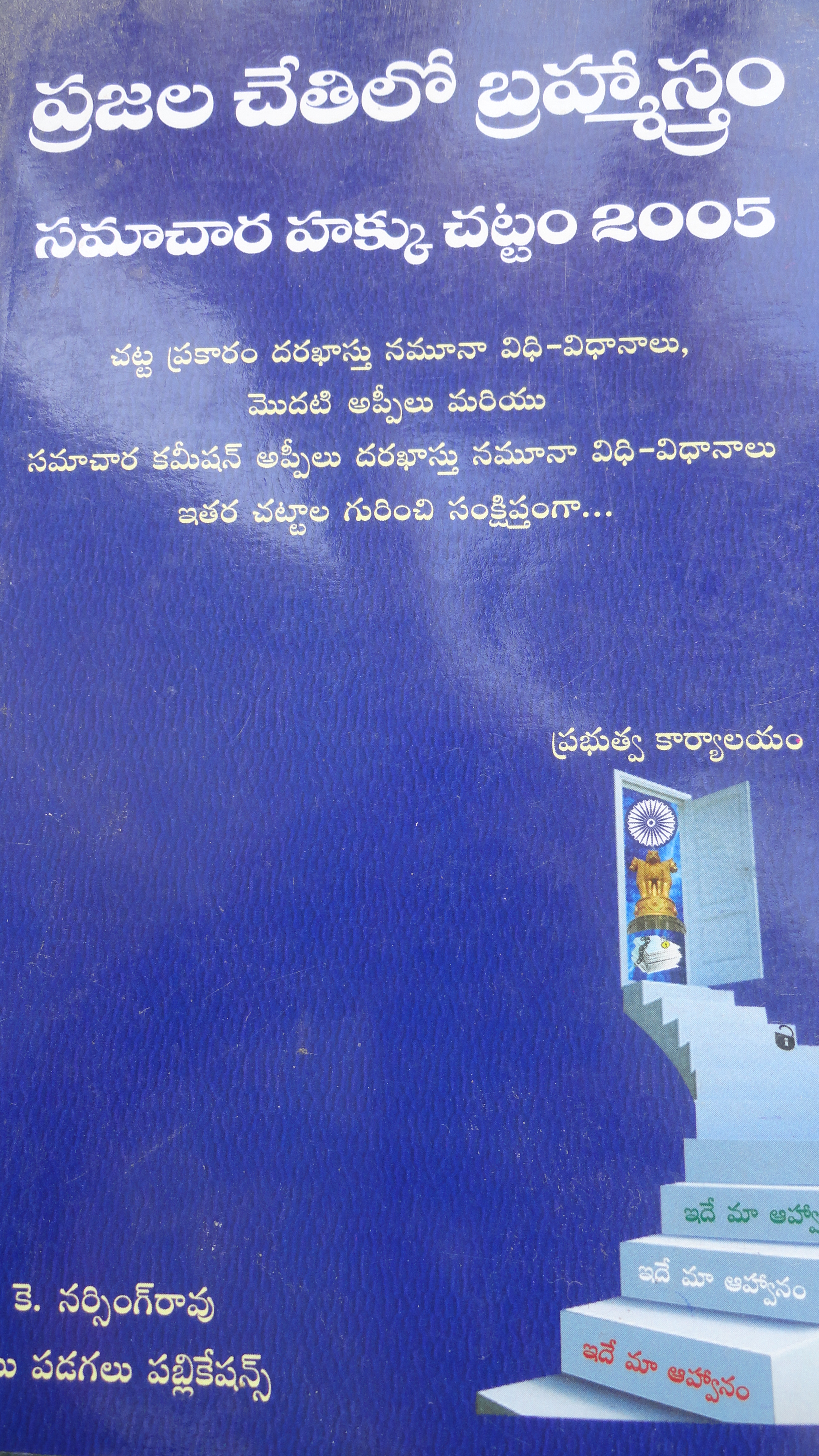 Prajalacetilo brahmaastram/book cover